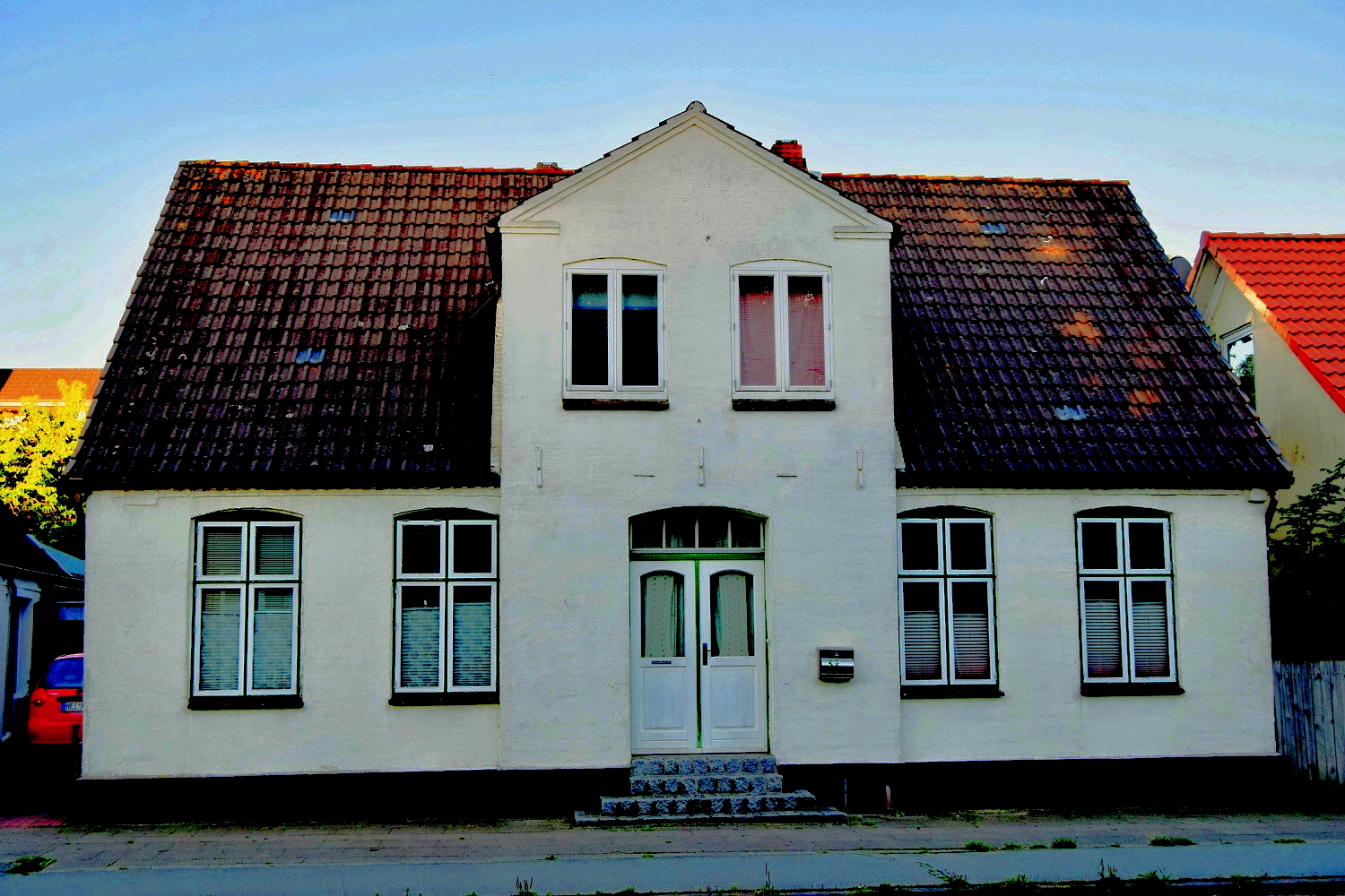 Former home of the German bard, writer and progressive pedagogue Martin Luserke (1880–1968) in Meldorf ind the district Dithmarschen, Holstein, Germany.